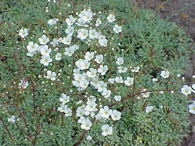 Species: Saxifraga cochlearis Family: Saxifragaceae Image No. 2